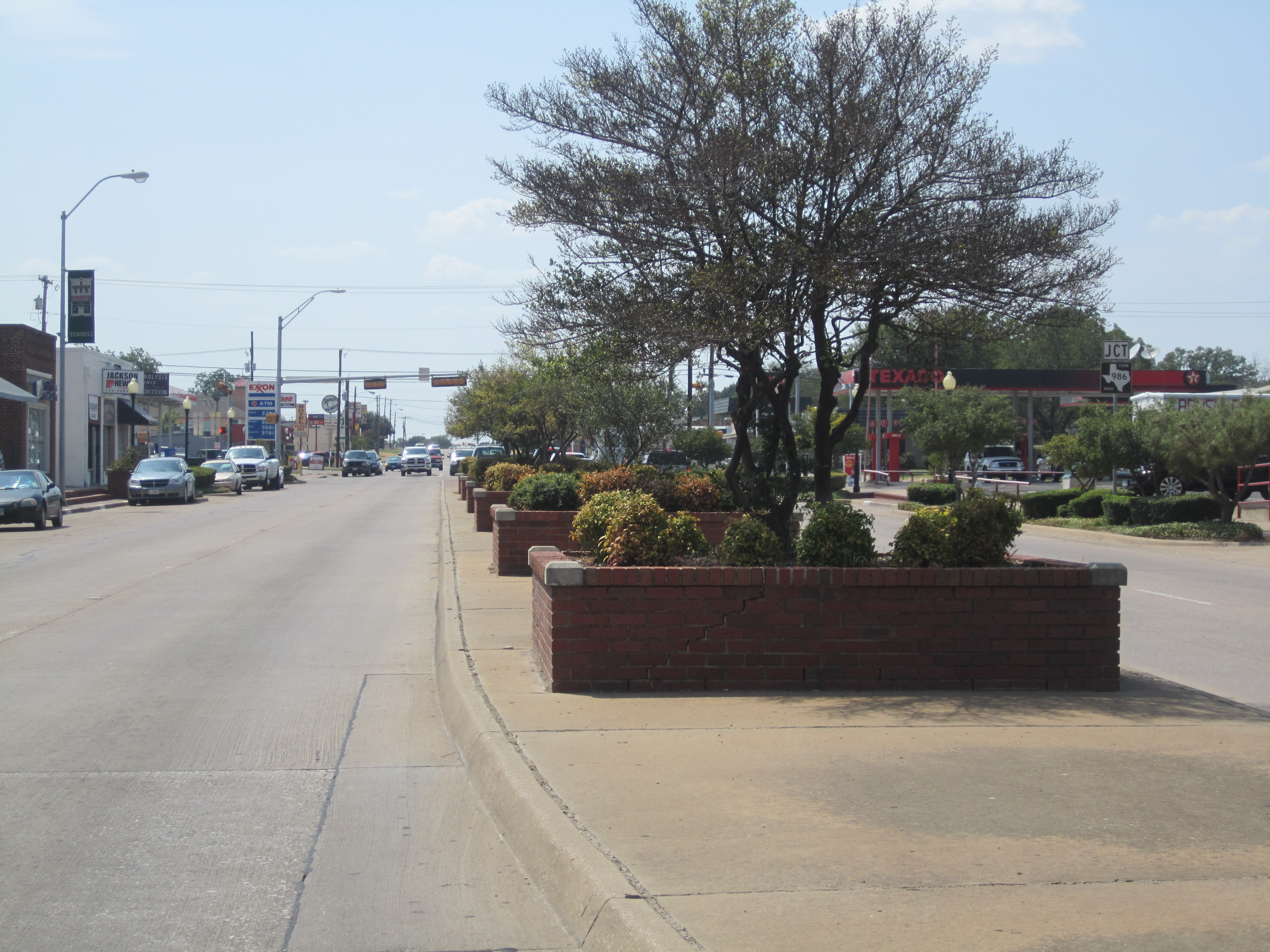 I took photo with Canon camera in Terrell, TX, of U.S. Route 80.